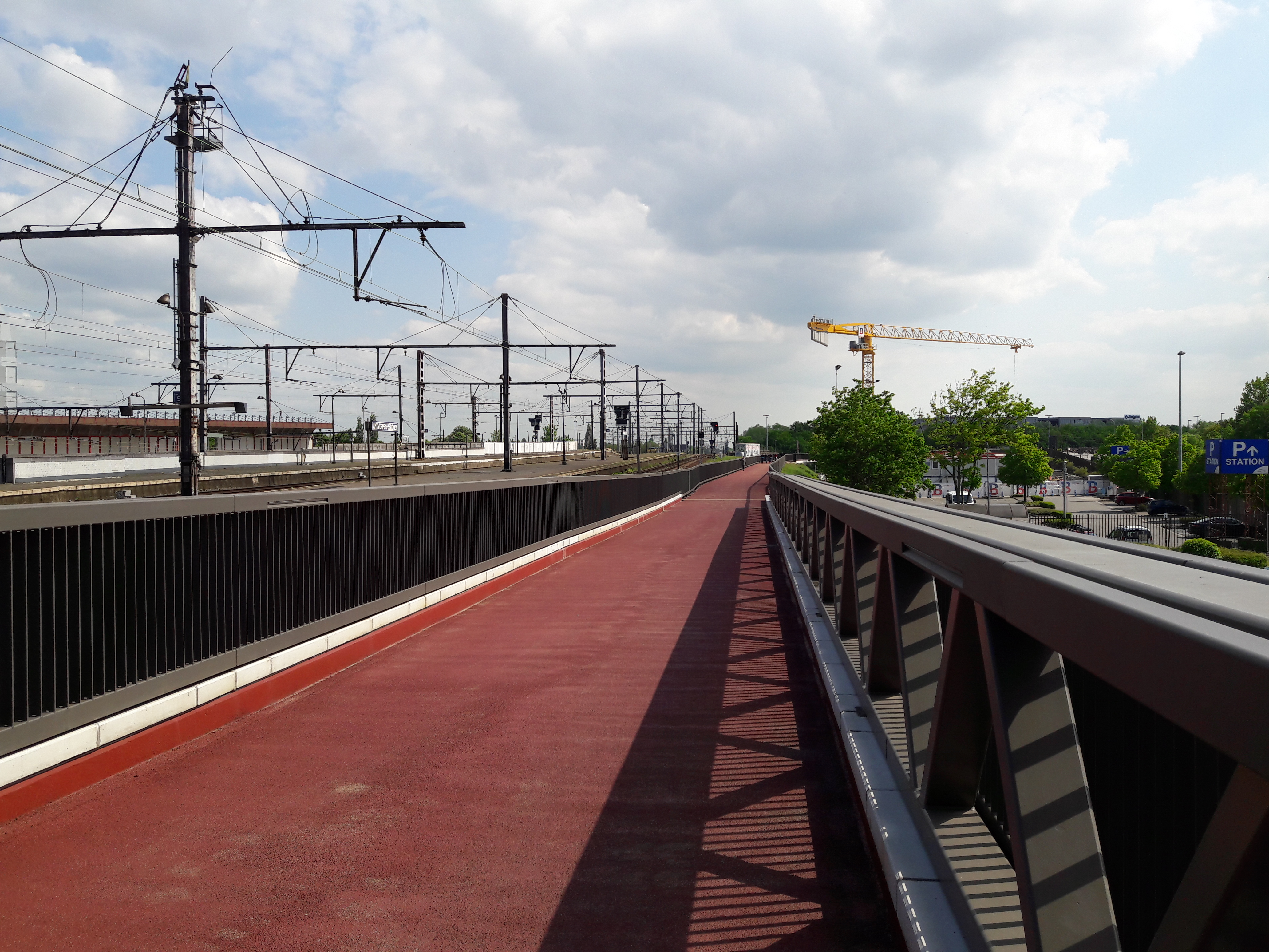 Bike bridge. Bike highway F1.